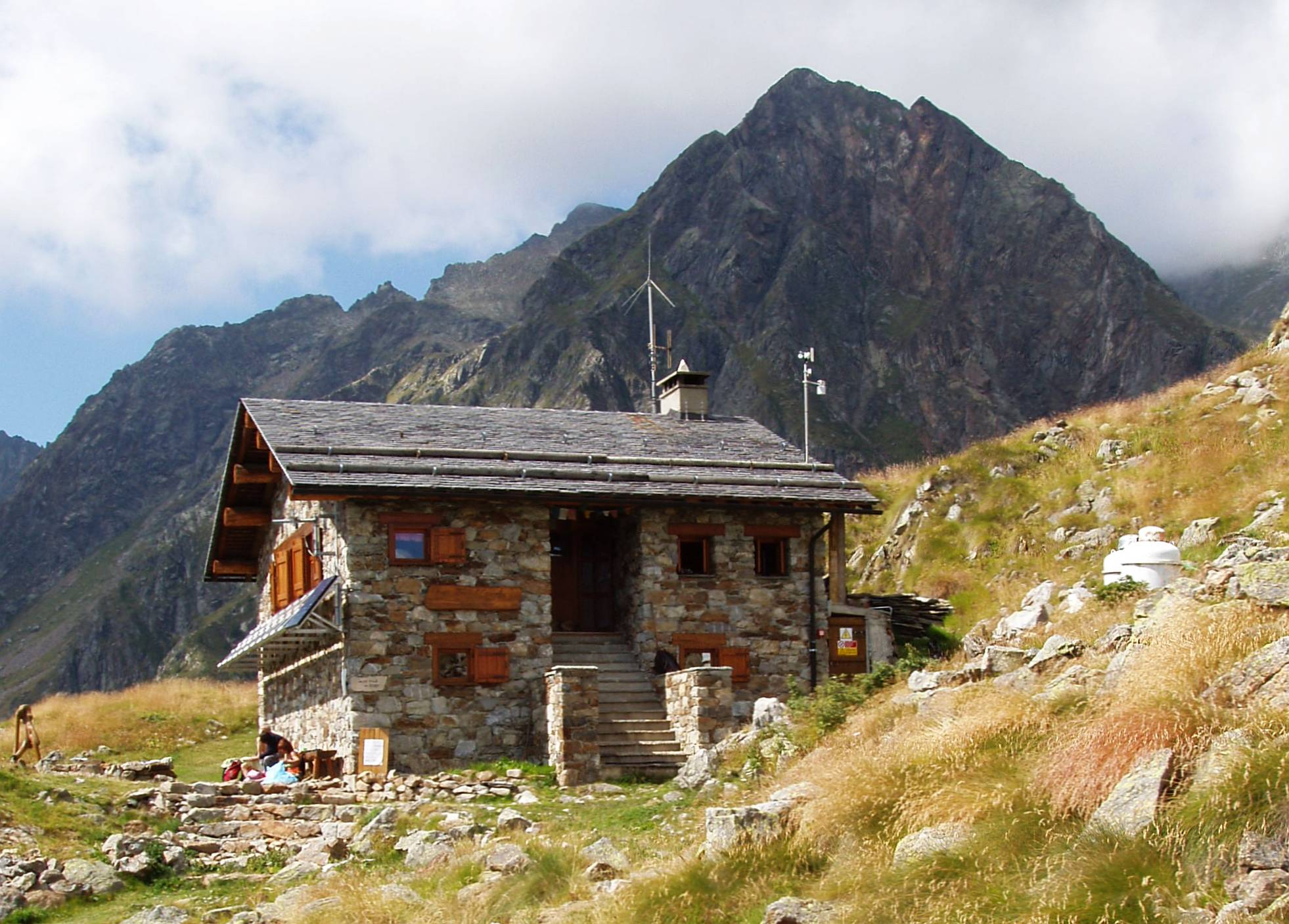 Antonio Carestia mountain hut (Valsesia, VC, Italy)